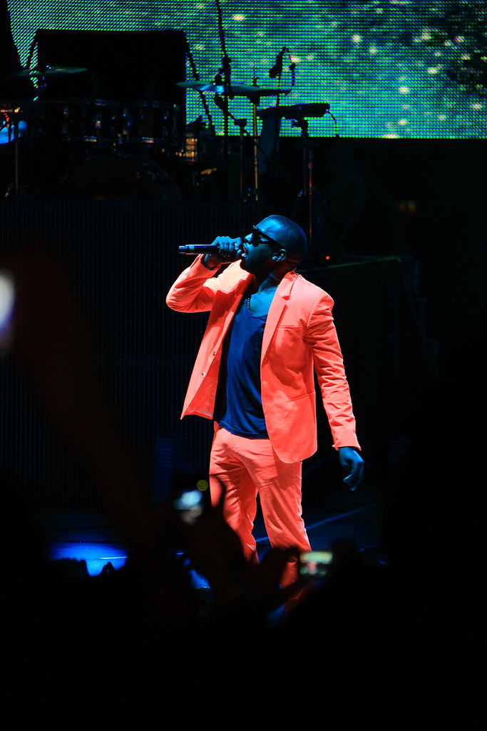 Kanye West performing "Jesus Walks" at Singfest on August 5, 2010 in Singapore.